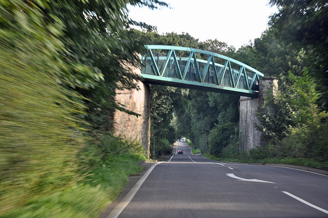 Bridge carrying the Tissington Trail across the A515.